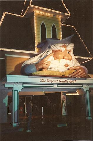 This is a picture of the Mystery Fun House that was in Orlando, Florida